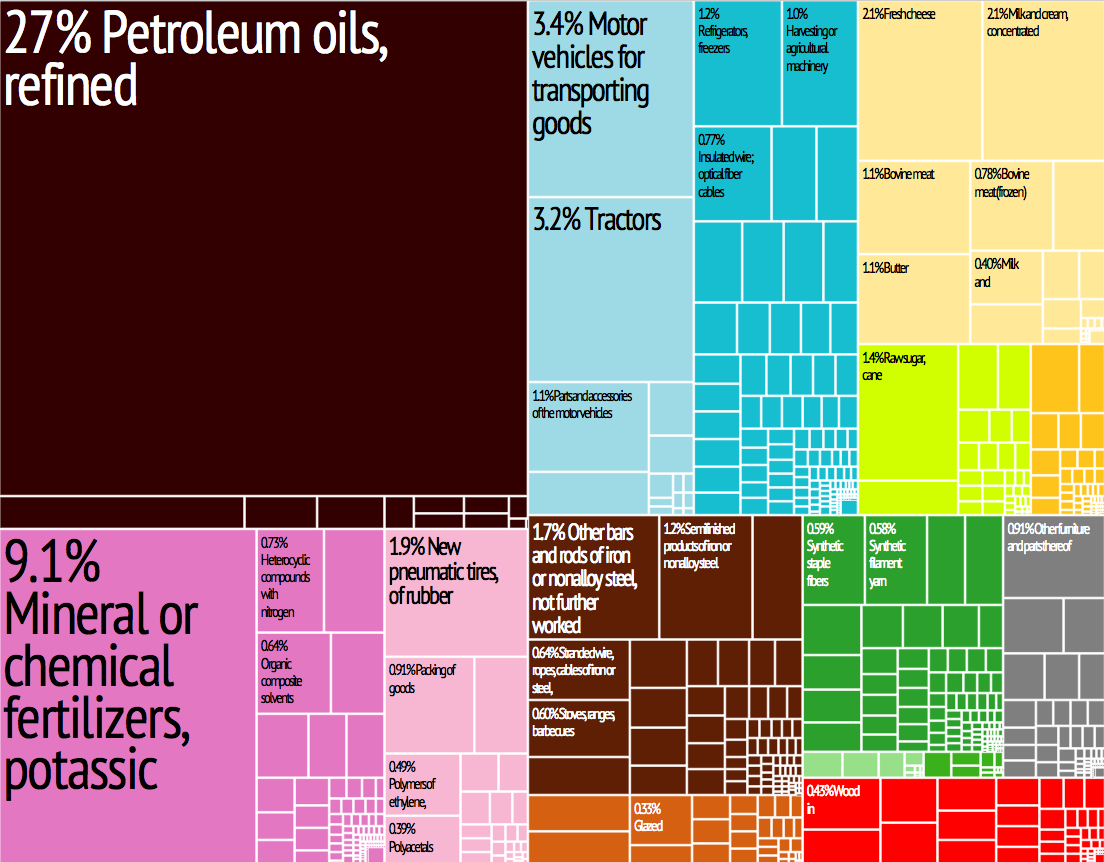 Belarus Export Treemap from MIT Harvard Economic Observatory